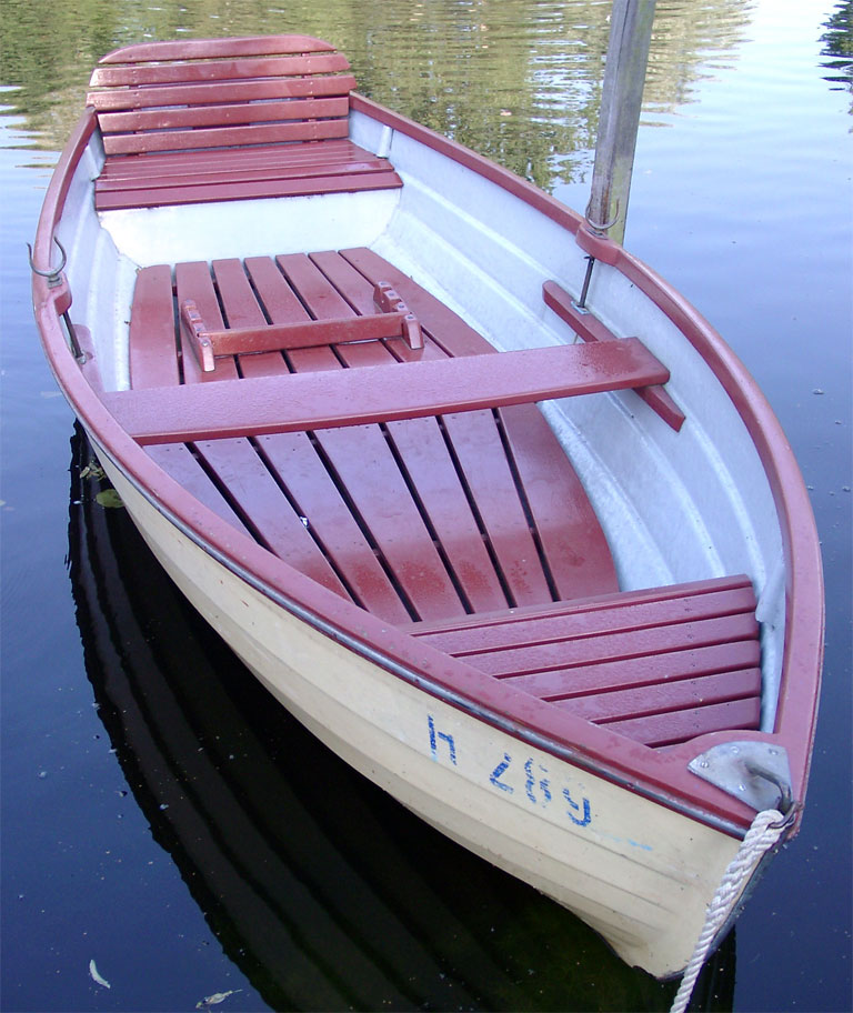 Rowboat.